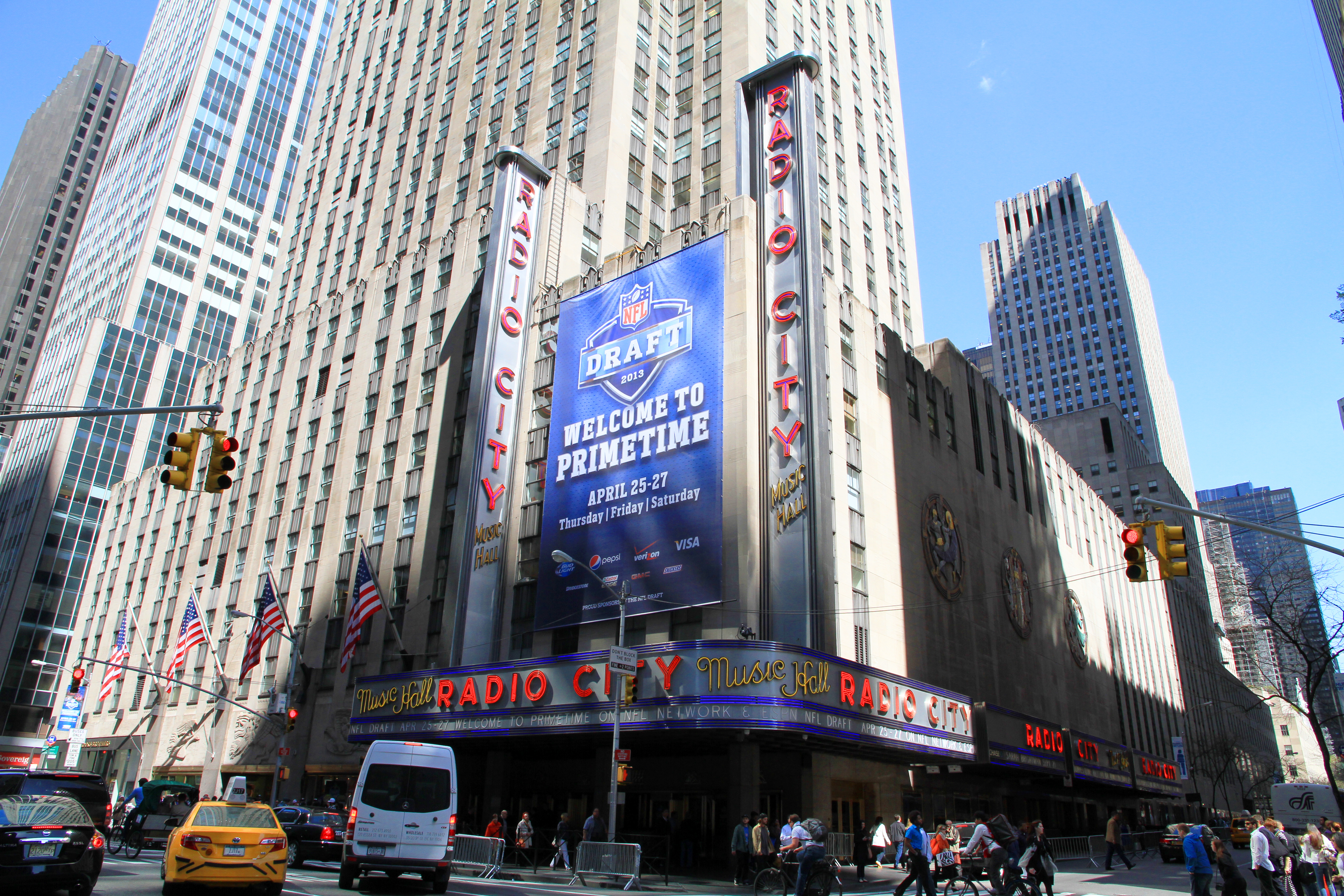 Radio City Music Hall